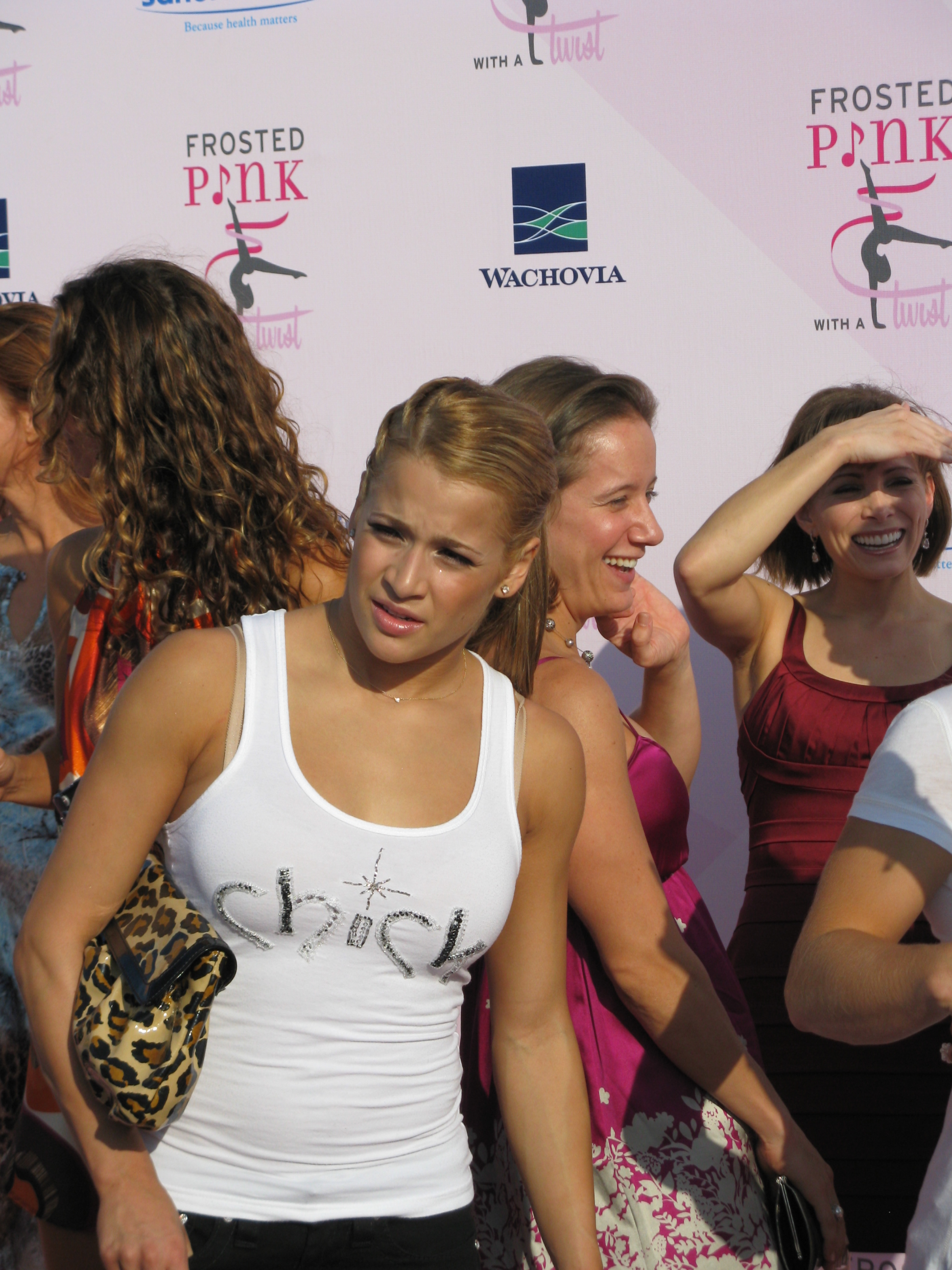 San Diego, California on September 14th, 2008